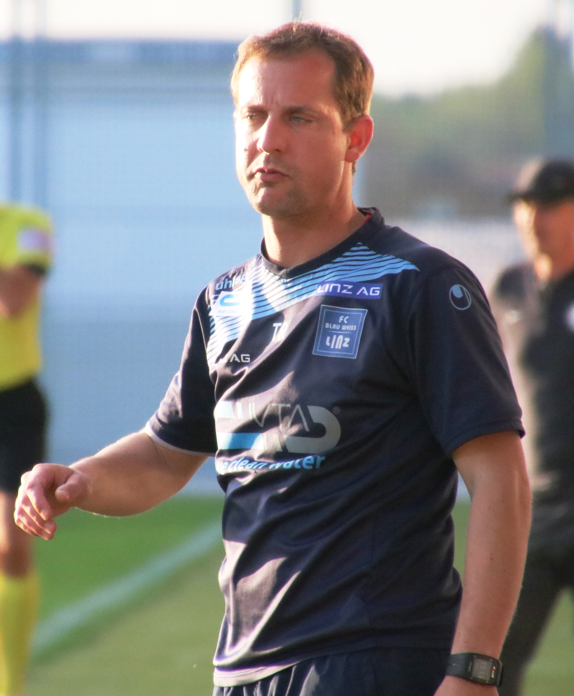 Austria 2nd league league match